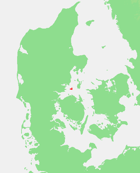 Locator map of Endelave